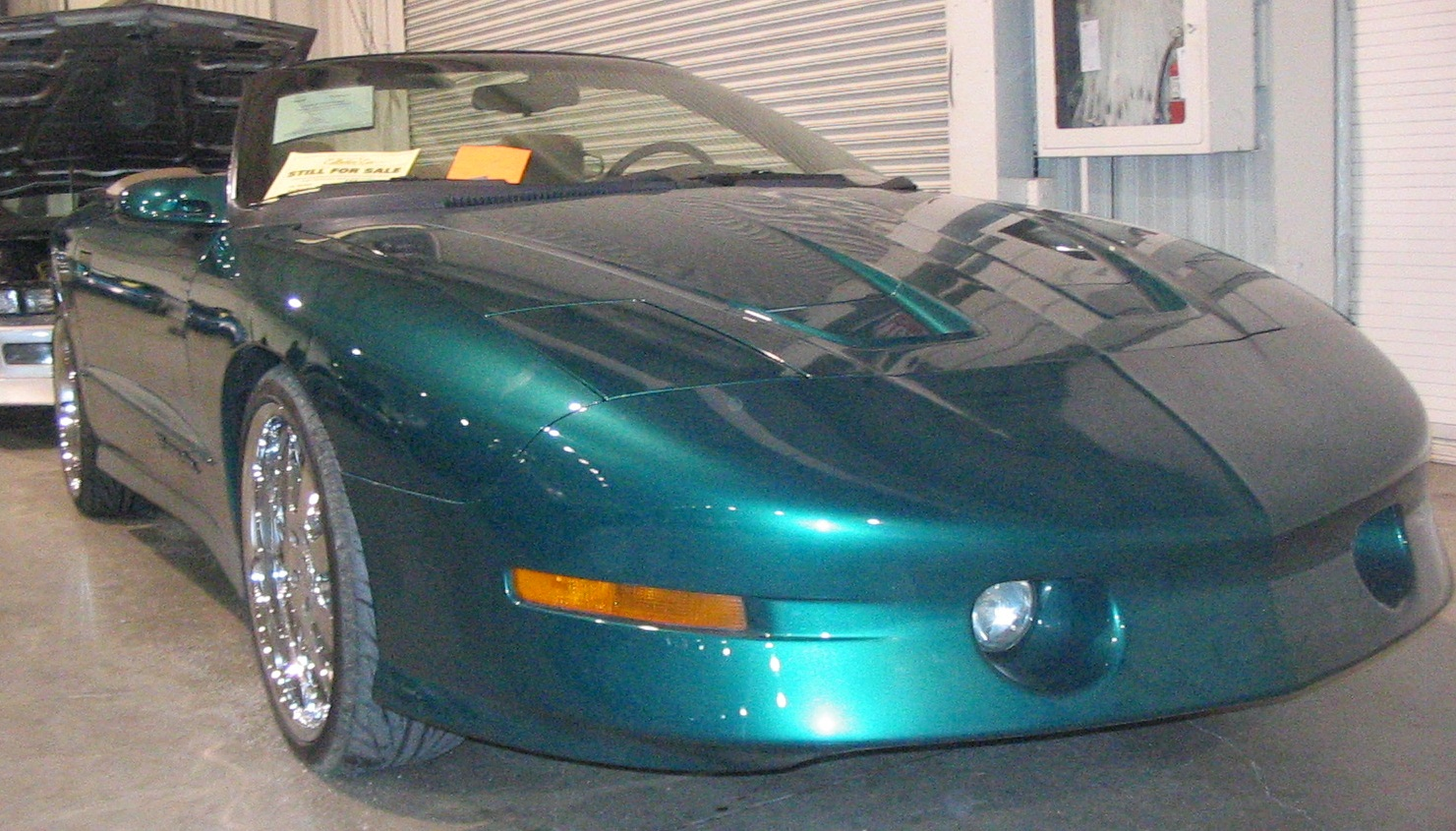 1997 Pontiac Trans Am photographed in Mississauga, Ontario, Canada at the Toronto Classic Car Auction of spring 2012.